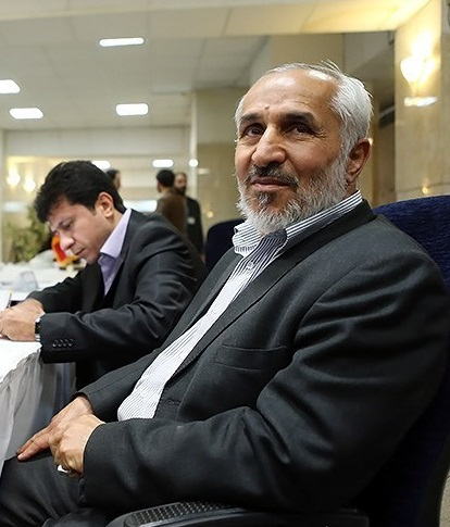 Davoud Ahmadinejad